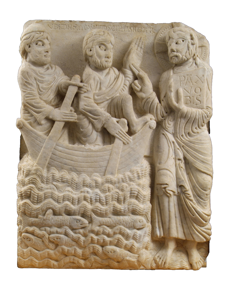 Apperance of Jesus to his Disciples at Sea. Doorway relief